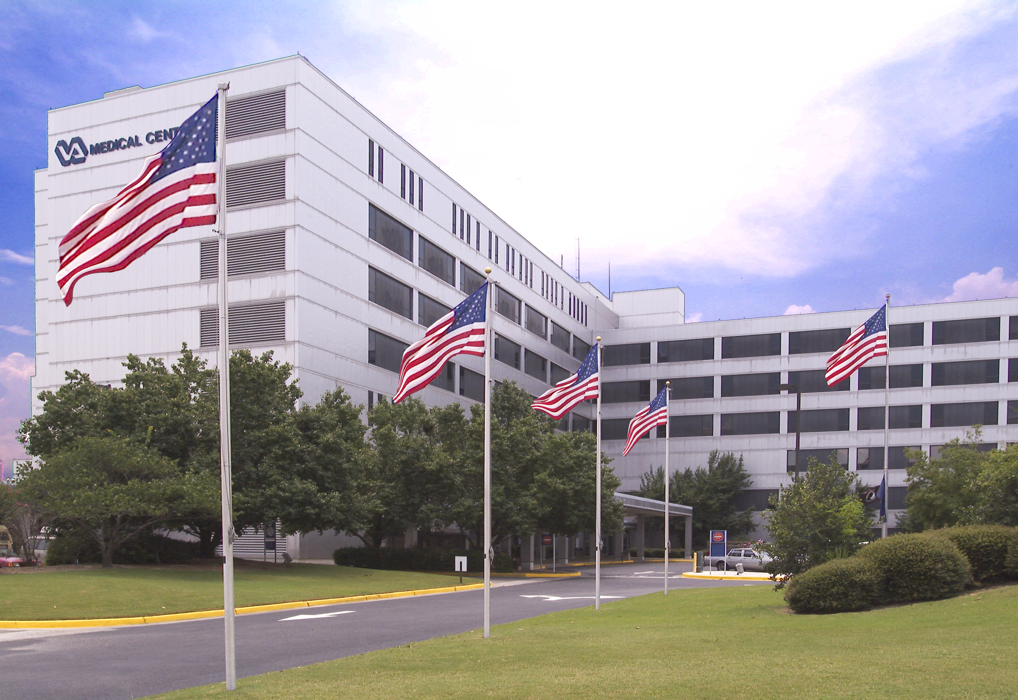 VA Medical Center, Downtown Division, Augusta, Georgia United States. (Federal government photo, public domain)